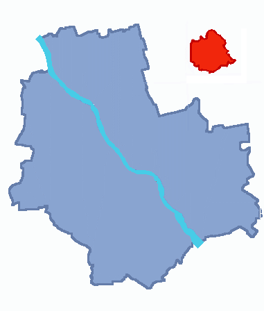 location of Kobyłka (red) and Warsaw (blue)